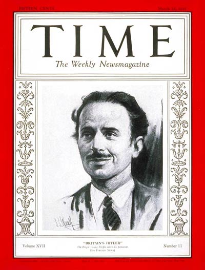 Oswald Mosley on Time magazine cover, 1931.